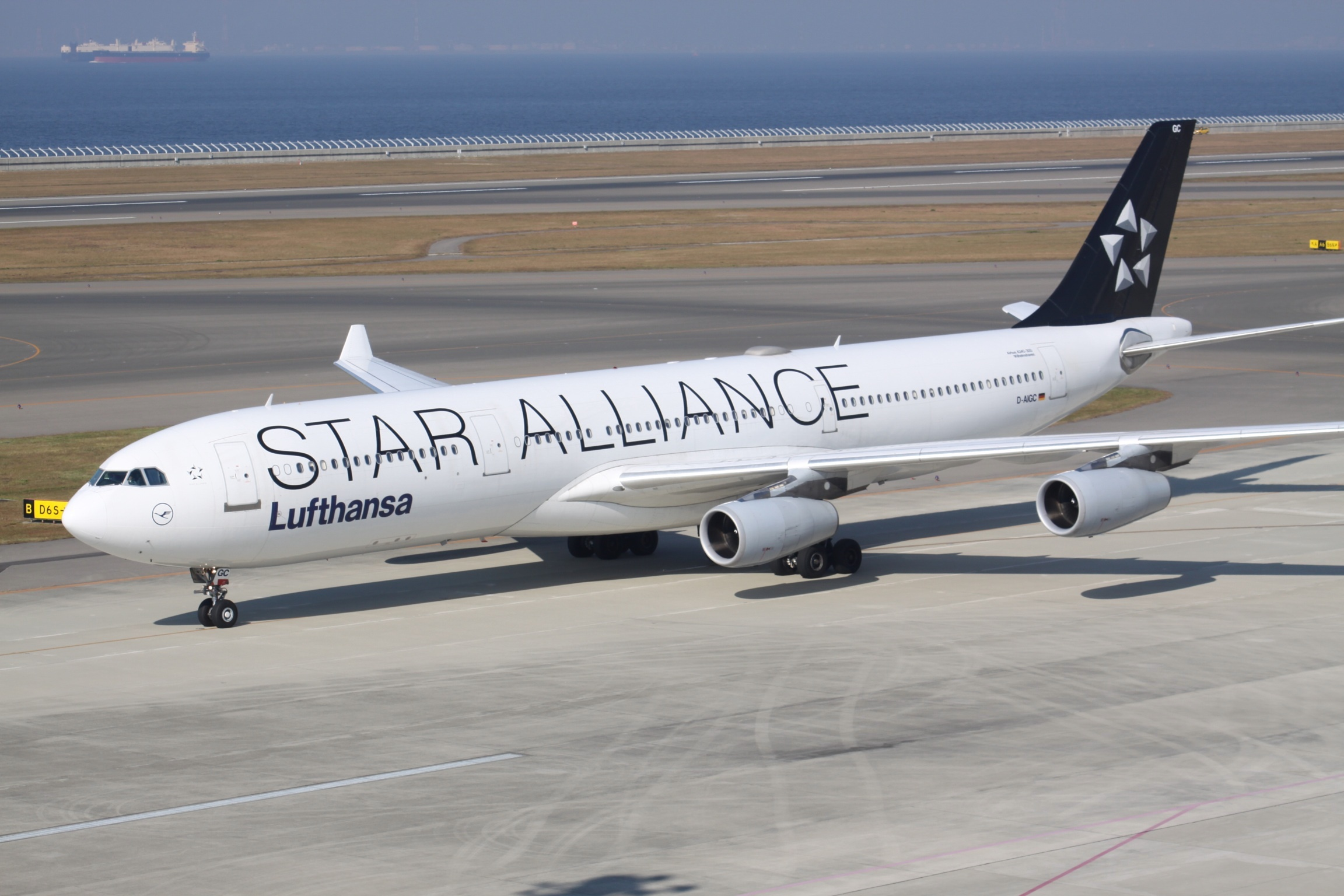 At Nagoya Chūbu Centrair International